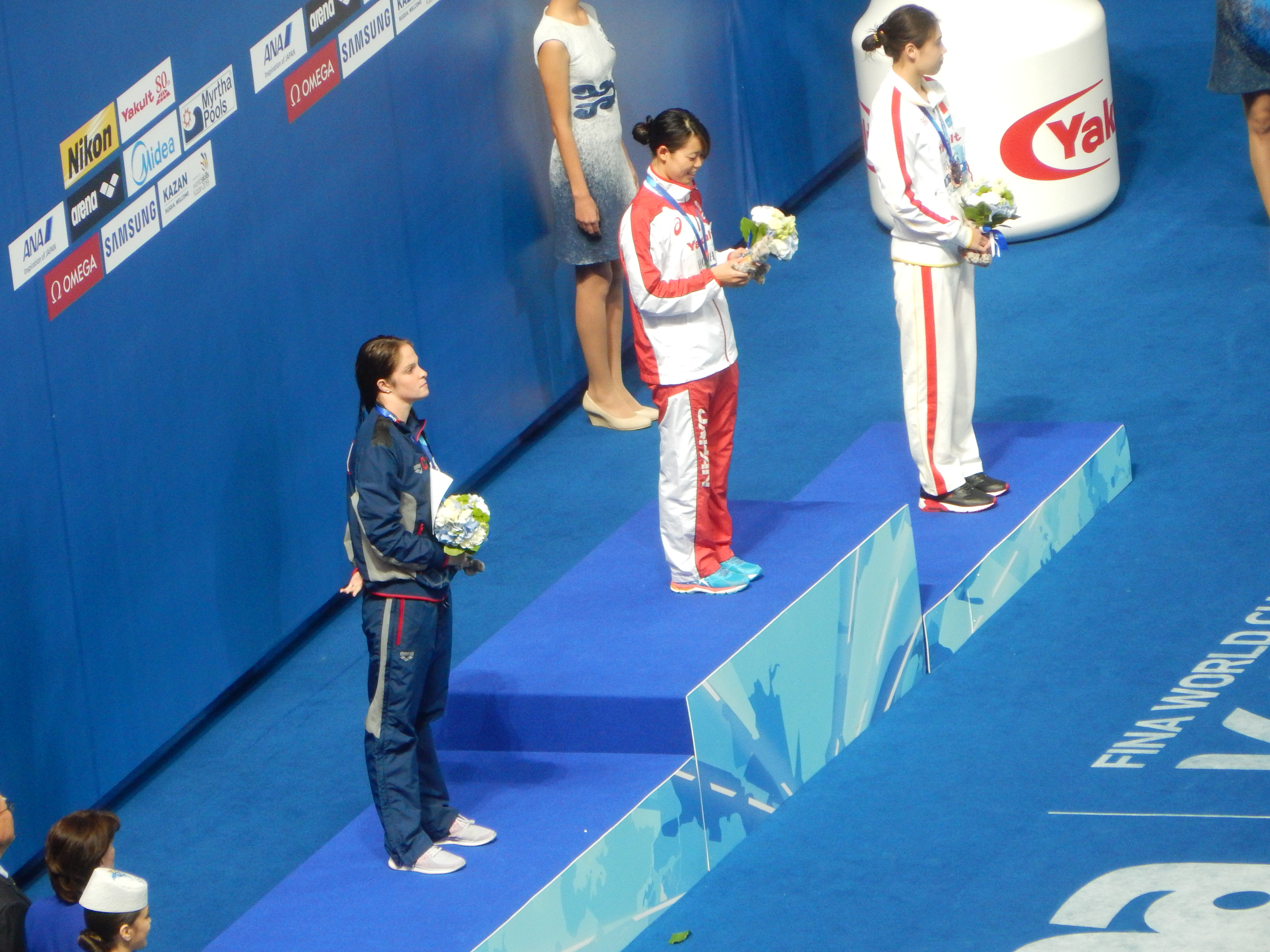 Medallists at the women's 200 metres butterfly in Kazan 2015